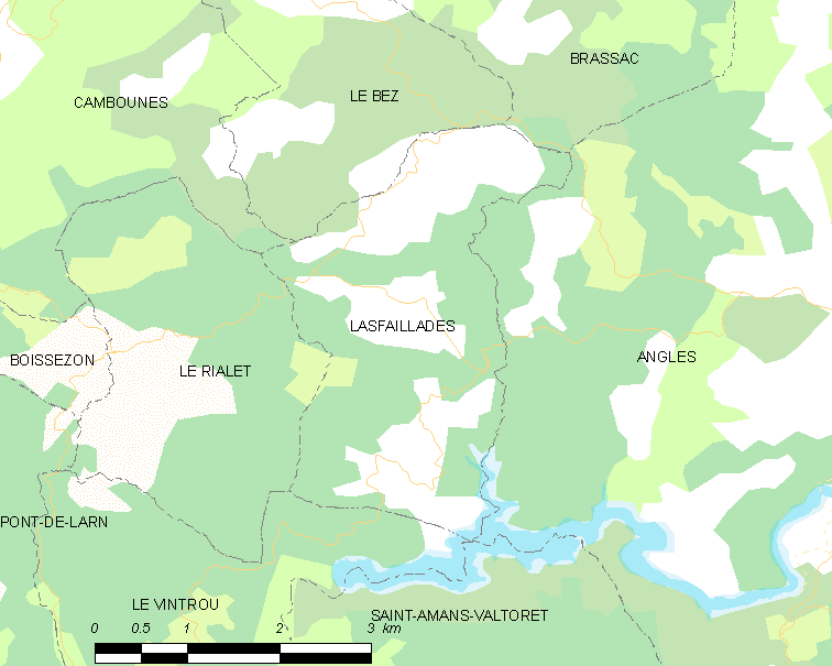 Map commune FR insee code 81137.png - Lasfaillades